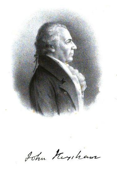 Portrait of John Heysham (1753–1834), English physician.